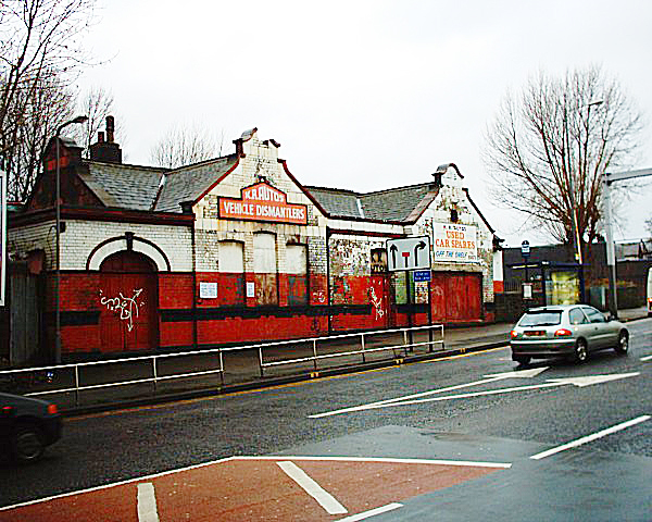 Heeley Station in Heeley Bridge (Sheffield).